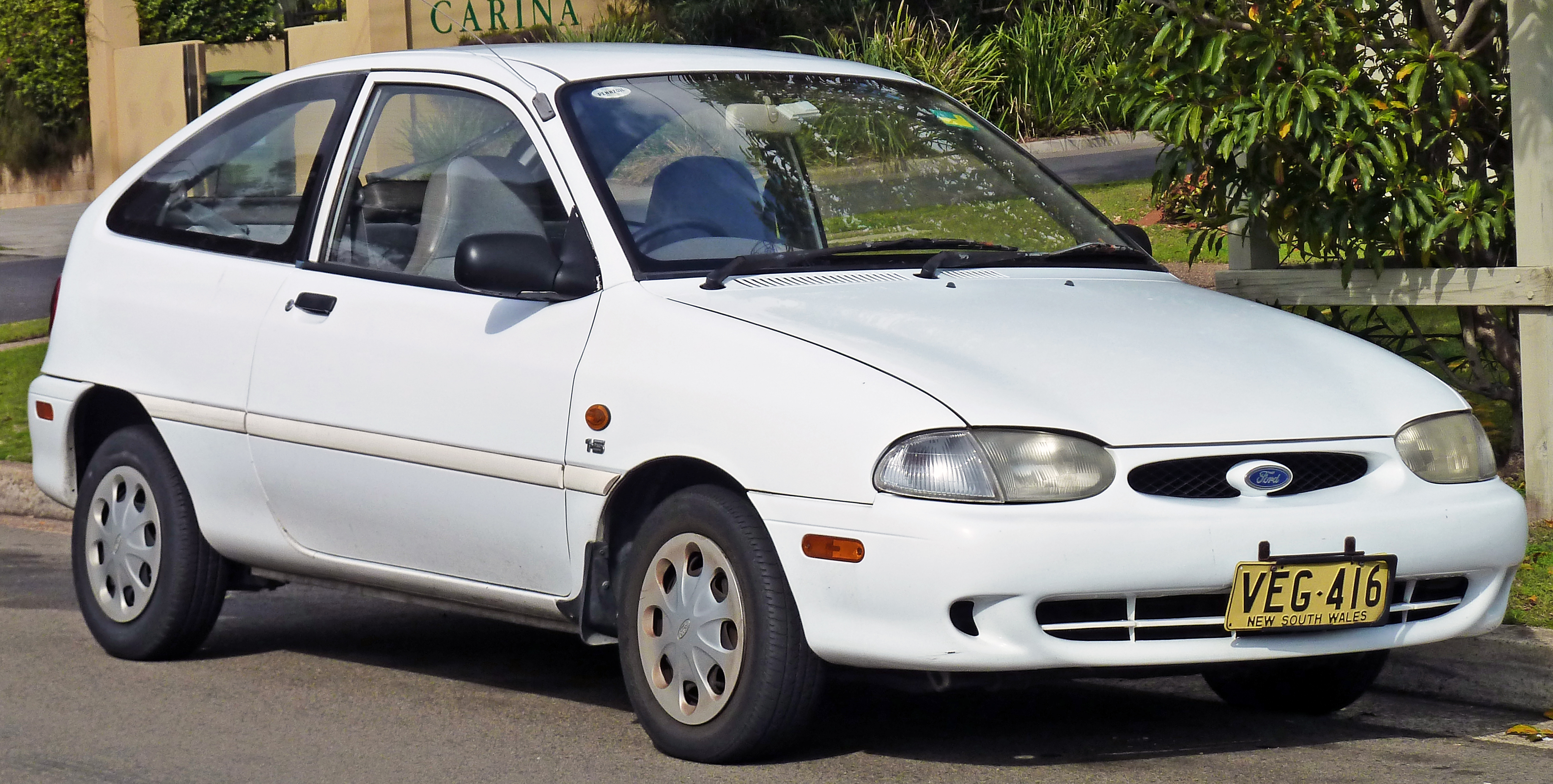 1998 Ford Festiva (WF) Trio S 3-door hatchback. Photographed in Sylvania, New South Wales, Australia.